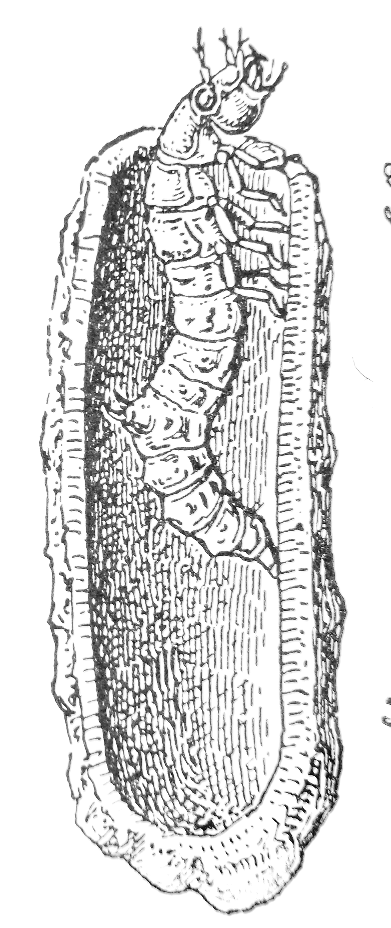 Cicindela hybrida